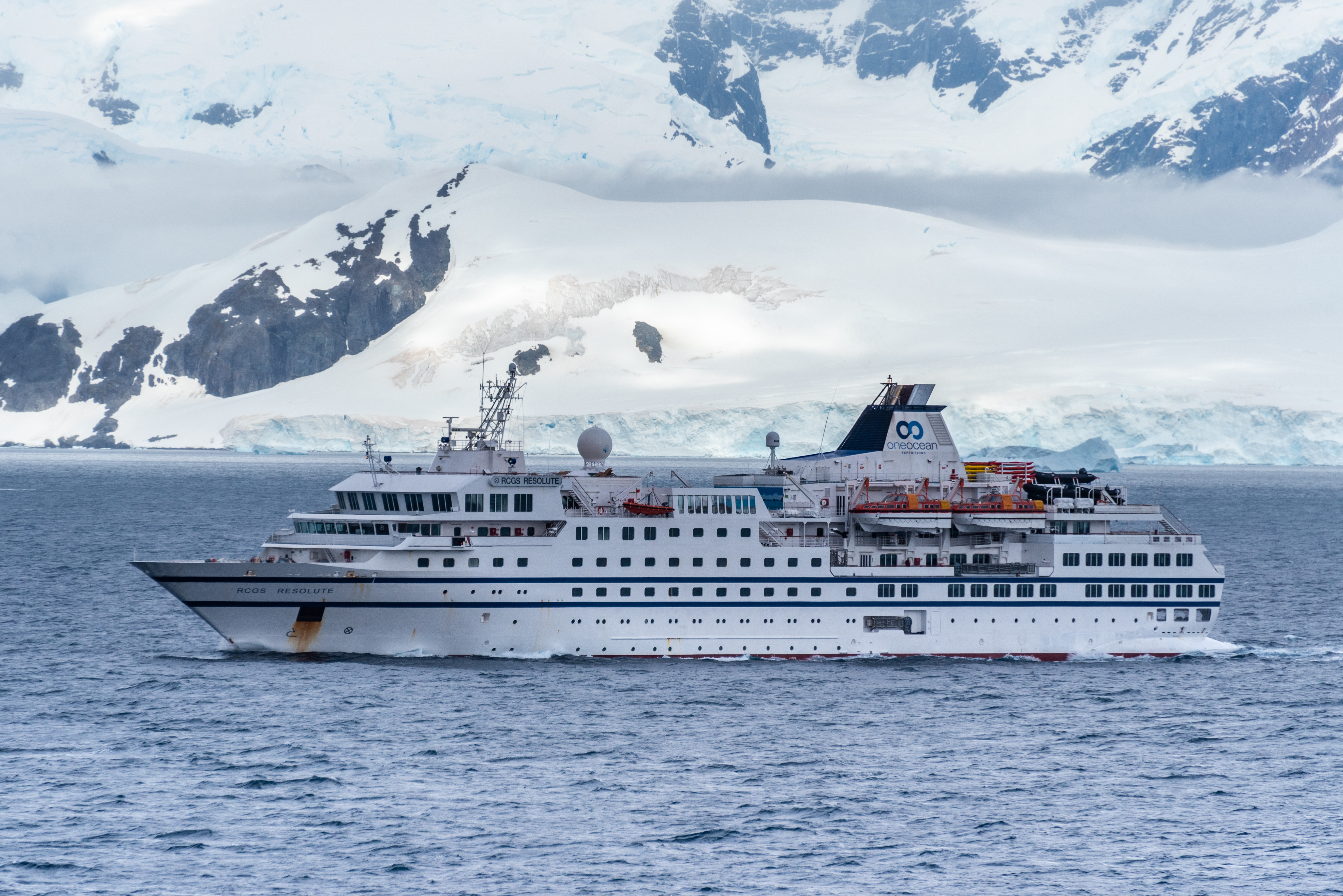 Expedition ship, RCGS RESOLUTE - IMO 9000168, operated by One Ocean Expeditions, in Errera Channel of Antarctica on March 5th, 2019.